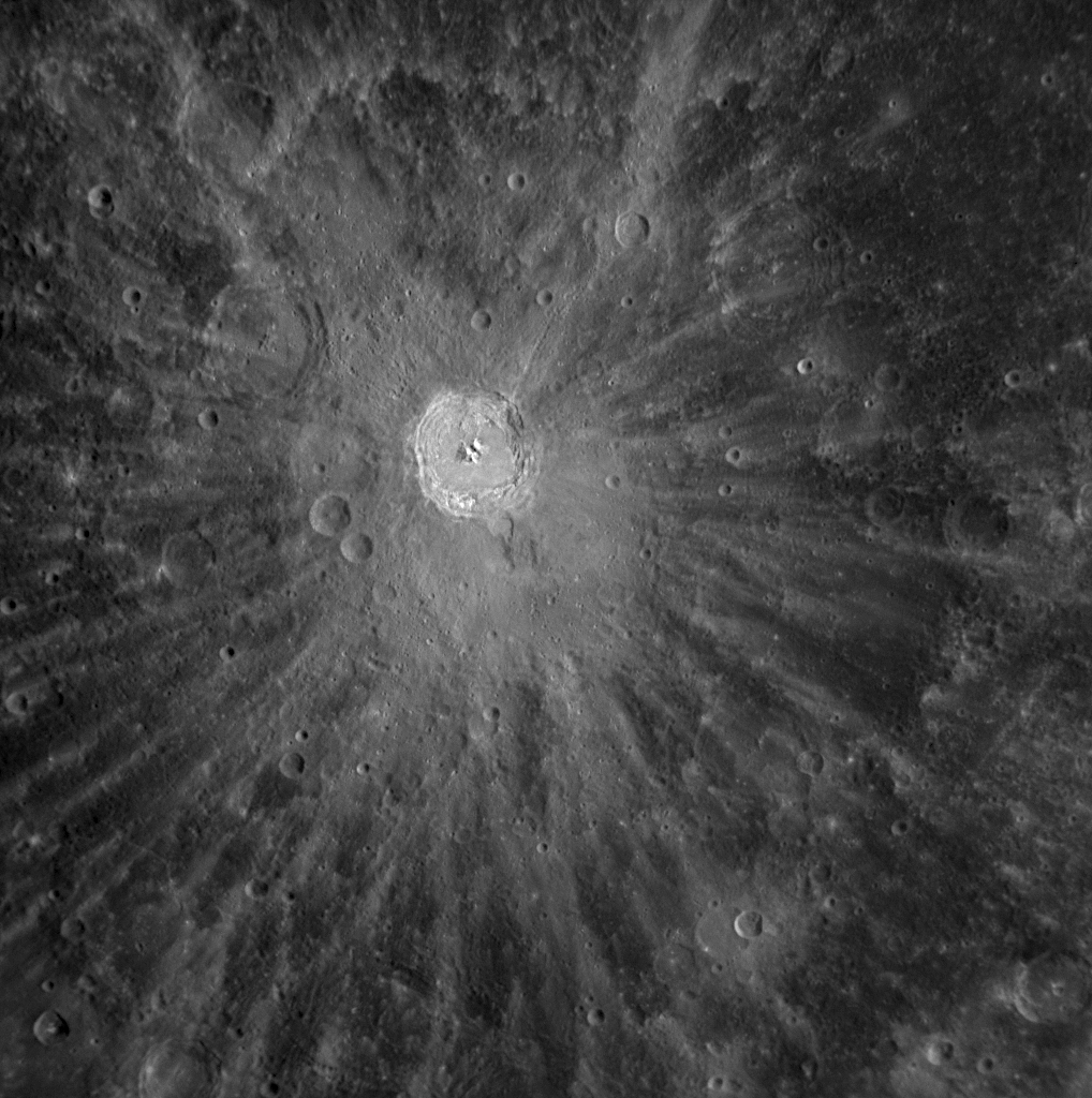 Image Mission Elapsed Time (MET): 131774036 Instrument: Narrow Angle Camera (NAC) of the Mercury Dual Imaging System (MDIS) Resolution: 530 meters/pixel (0.33 miles/pixel) Scale: Kuiper crater is 62 kilometers in diameter (39 miles) Spacecraft Altitude: 21,000 kilometers (13,000 miles) Of Interest: During Monday’s flyby of Mercury, MESSENGER’s NAC captured a new view of the bright, radial ejecta rays of Kuiper crater that were previously imaged by Mariner 10 at a lower Sun angle. Kuiper crater is named for Gerard Kuiper, a Dutch-American astronomer who was also a member of the Mariner 10 team. Bright ejecta rays such as these are produced as impacts excavate and eject relatively unweathered subsurface material. The ejecta rays of Kuiper and other large craters are observed to extend for hundreds of kilometers across the cratered terrain of Mercury, as seen on the full planet image from MESSENGER’s Wide Angle Camera (WAC) released previously.